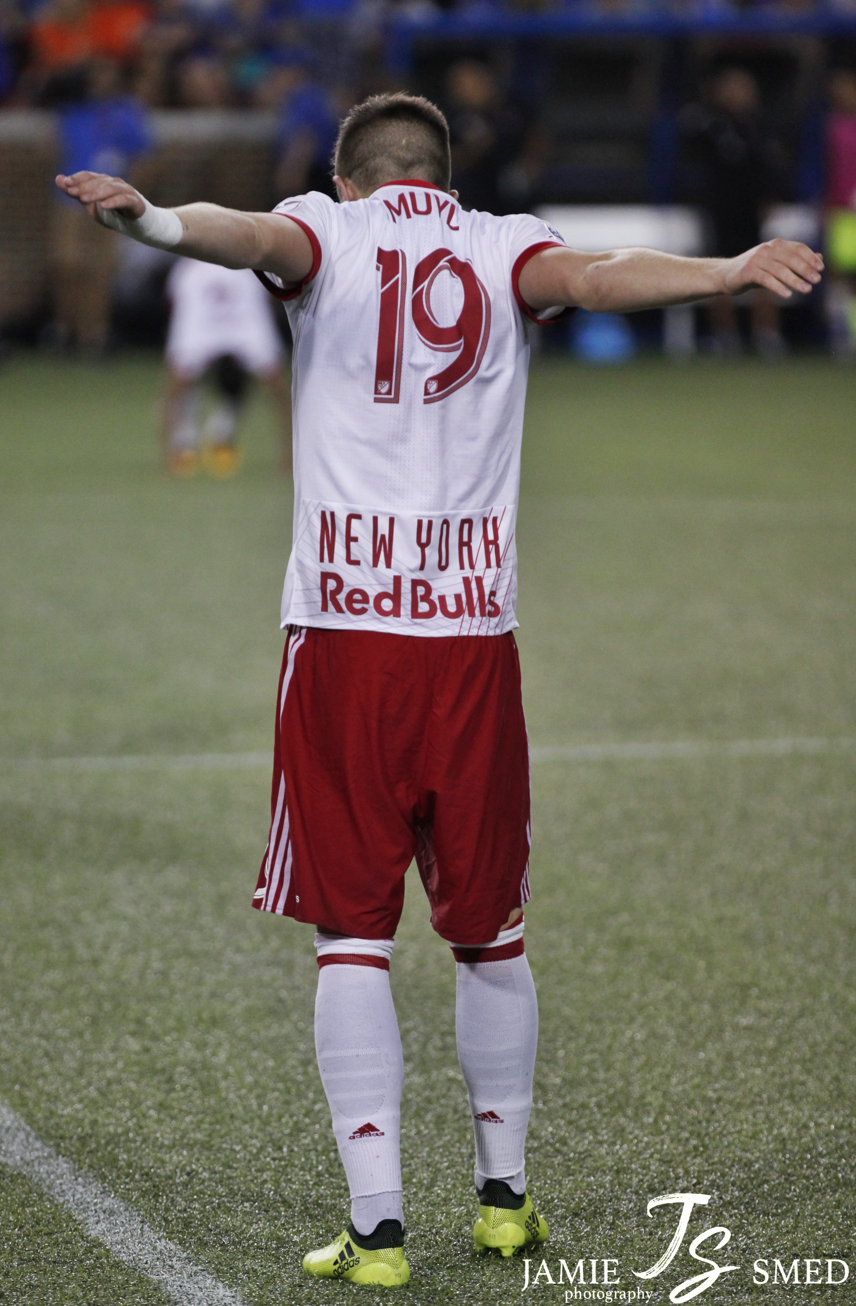 Taken at the 2017 U.S. Open Cup national semifinal match of New York Red Bulls at FC Cincinnati in Nippert Stadium on August 15, 2017.